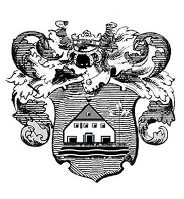 Coat of Arms of the Noble German Fam,ily Garbade, of Knights originally from Bremen. Charles IV, Holy Roman Emperor admitted them to the New Nobility.